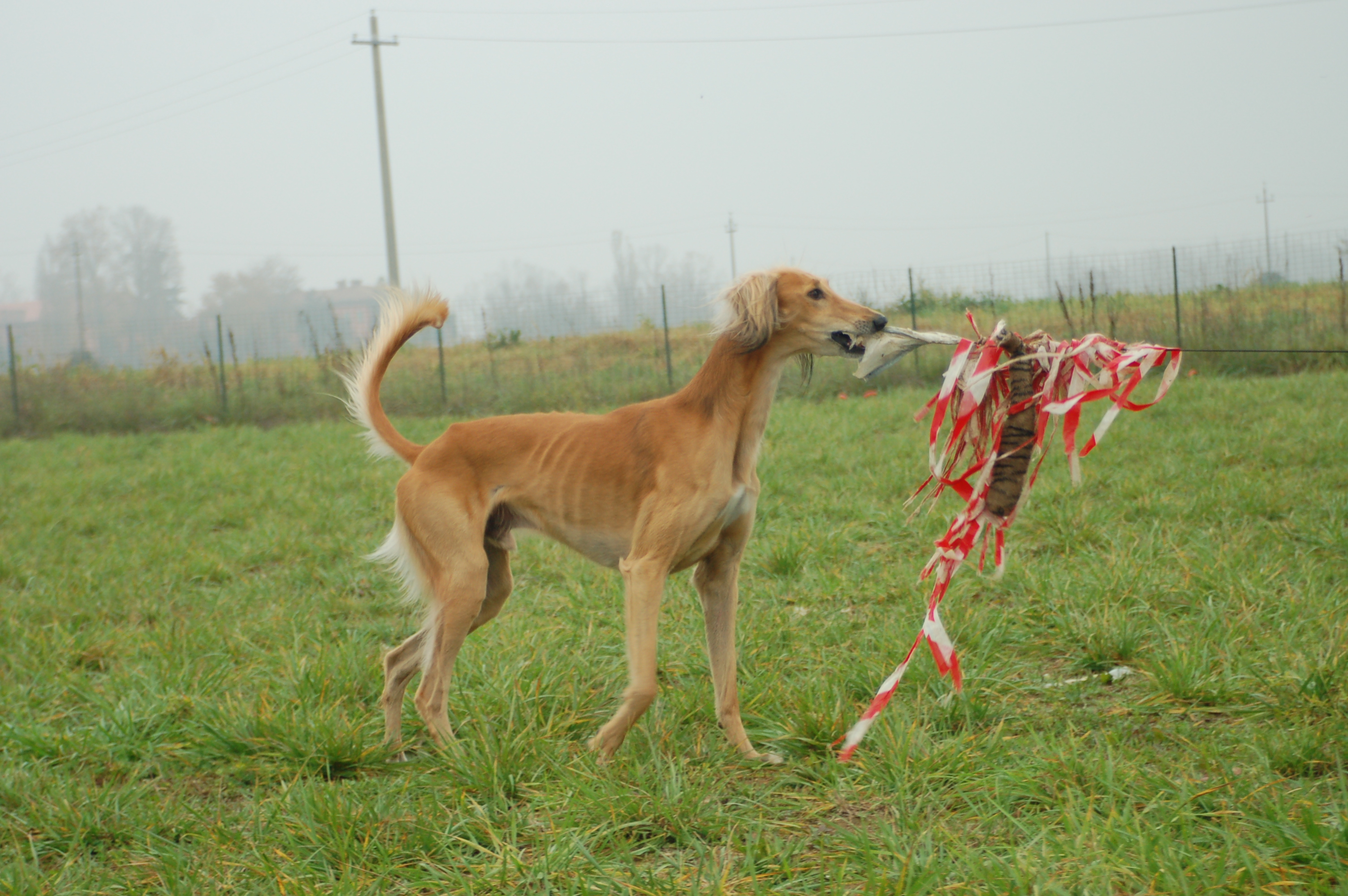 Saluki who plays after a coursing. Author: Simone Banderali